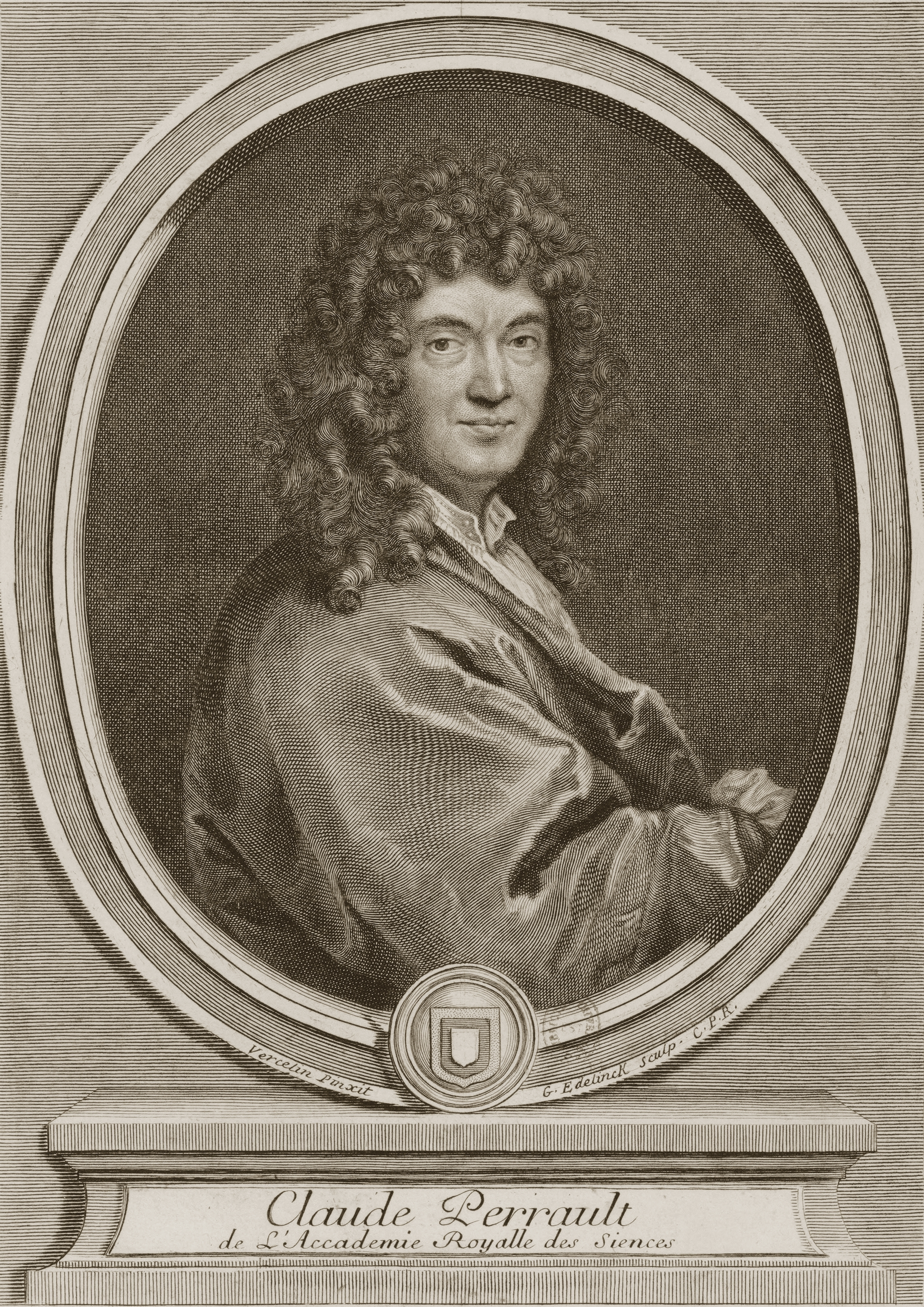 Engraved portrait of Claude Perrault (1613–1688), French architect and physician, and member of the Académie des Sciences, founded in 1666.